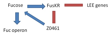 (MANY FUCOSE)